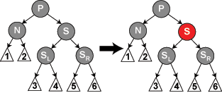 Produced by Derrick Coetzee in Illustrator and Photoshop for the red-black tree page. Size reduced with pngcrush.